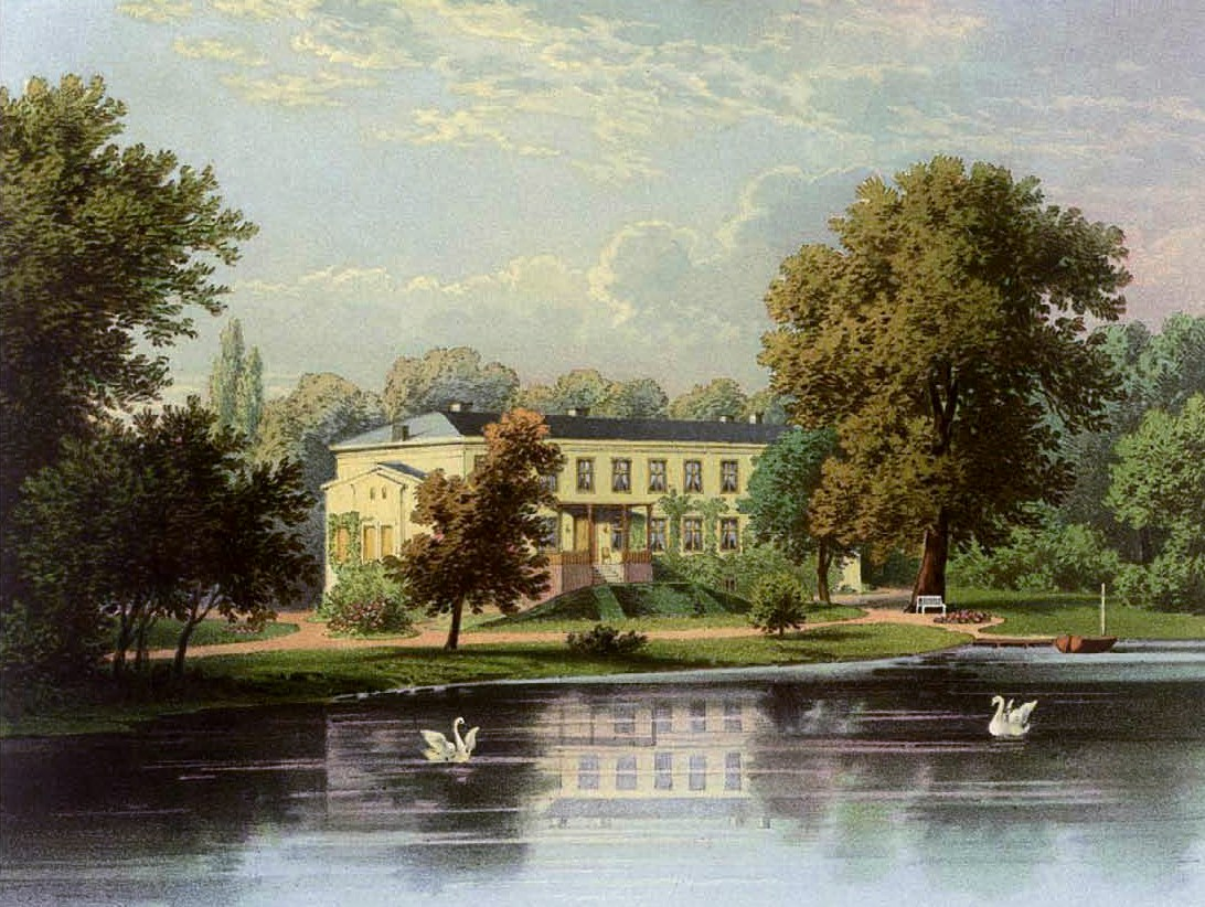 Former manor in Studnica, Poland